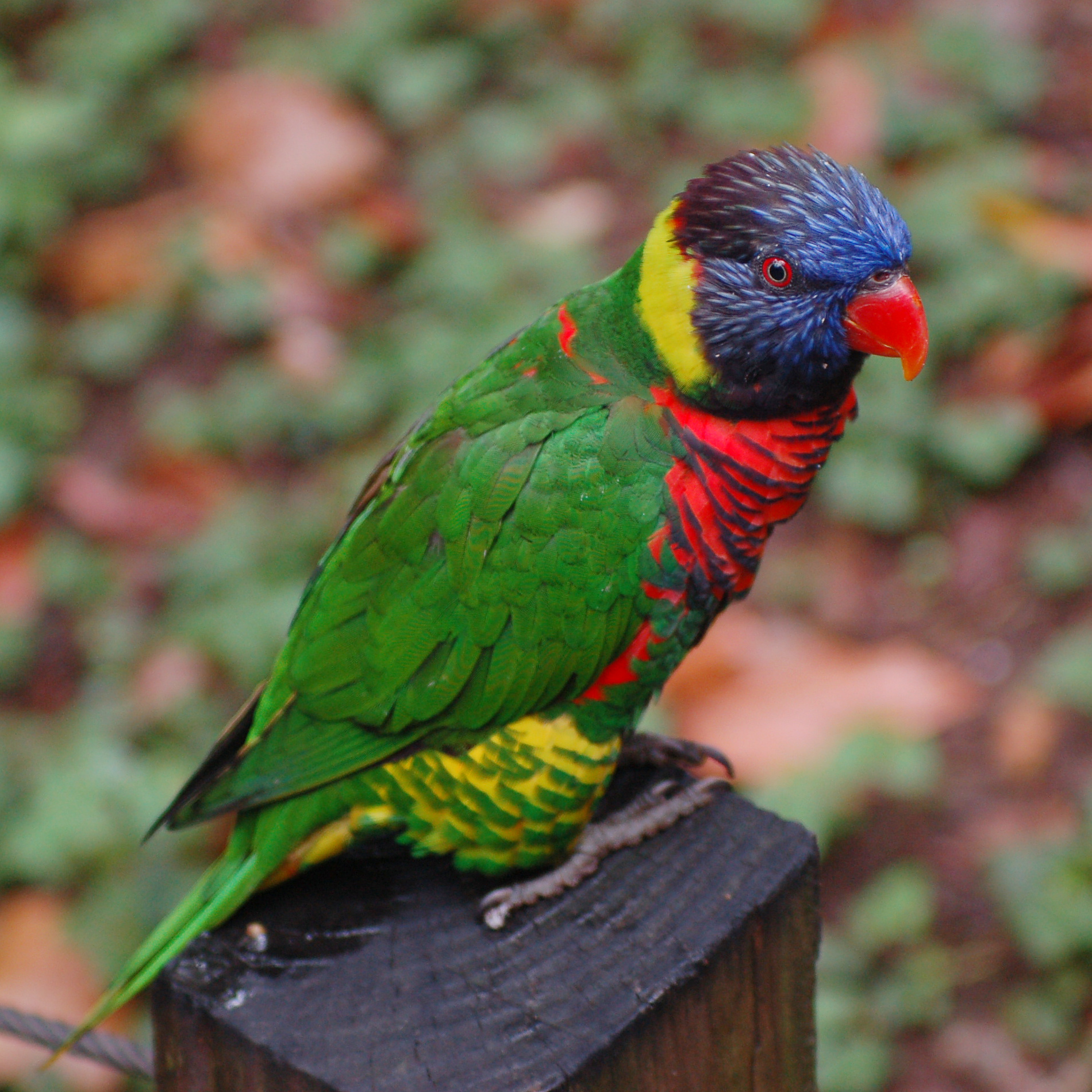 A photograph of a lorikeet (Trichoglossus en sp.). Photo taken at the Philadelphia Zoo.